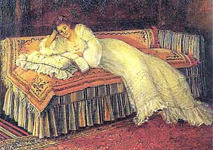 Woman Reading a Book